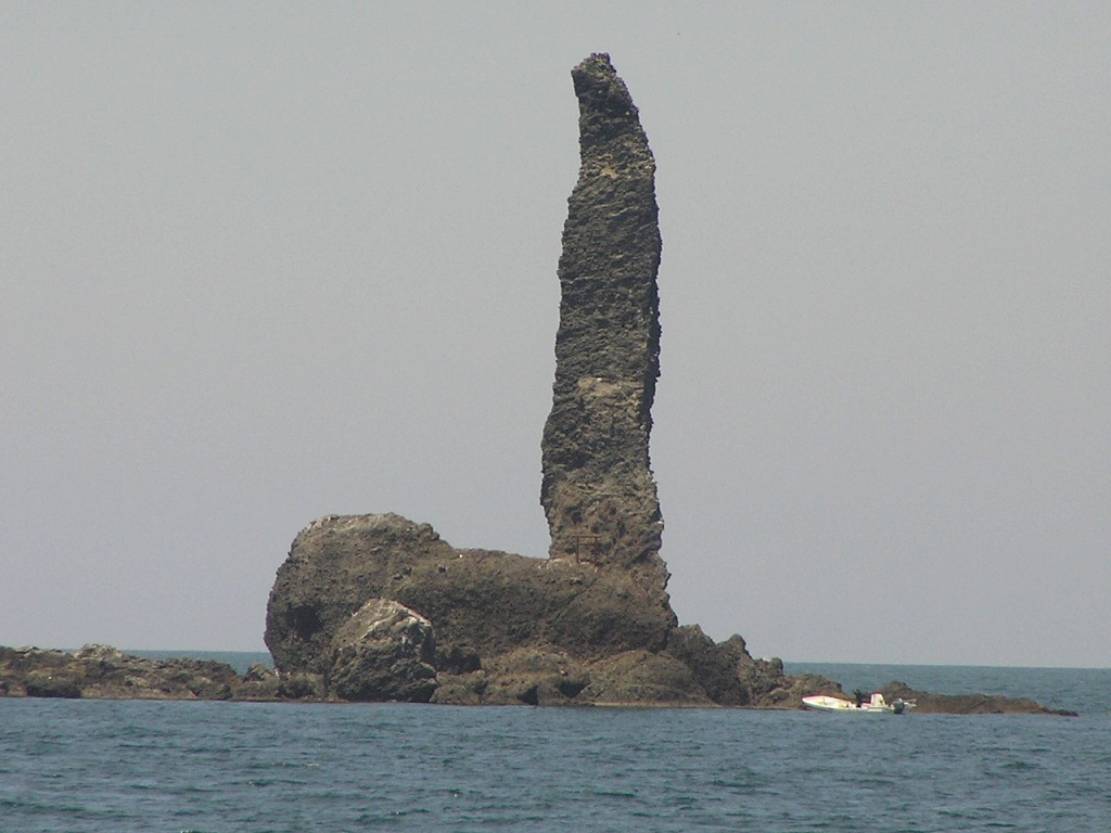 Candle rock rousoku-iwa ローソク岩